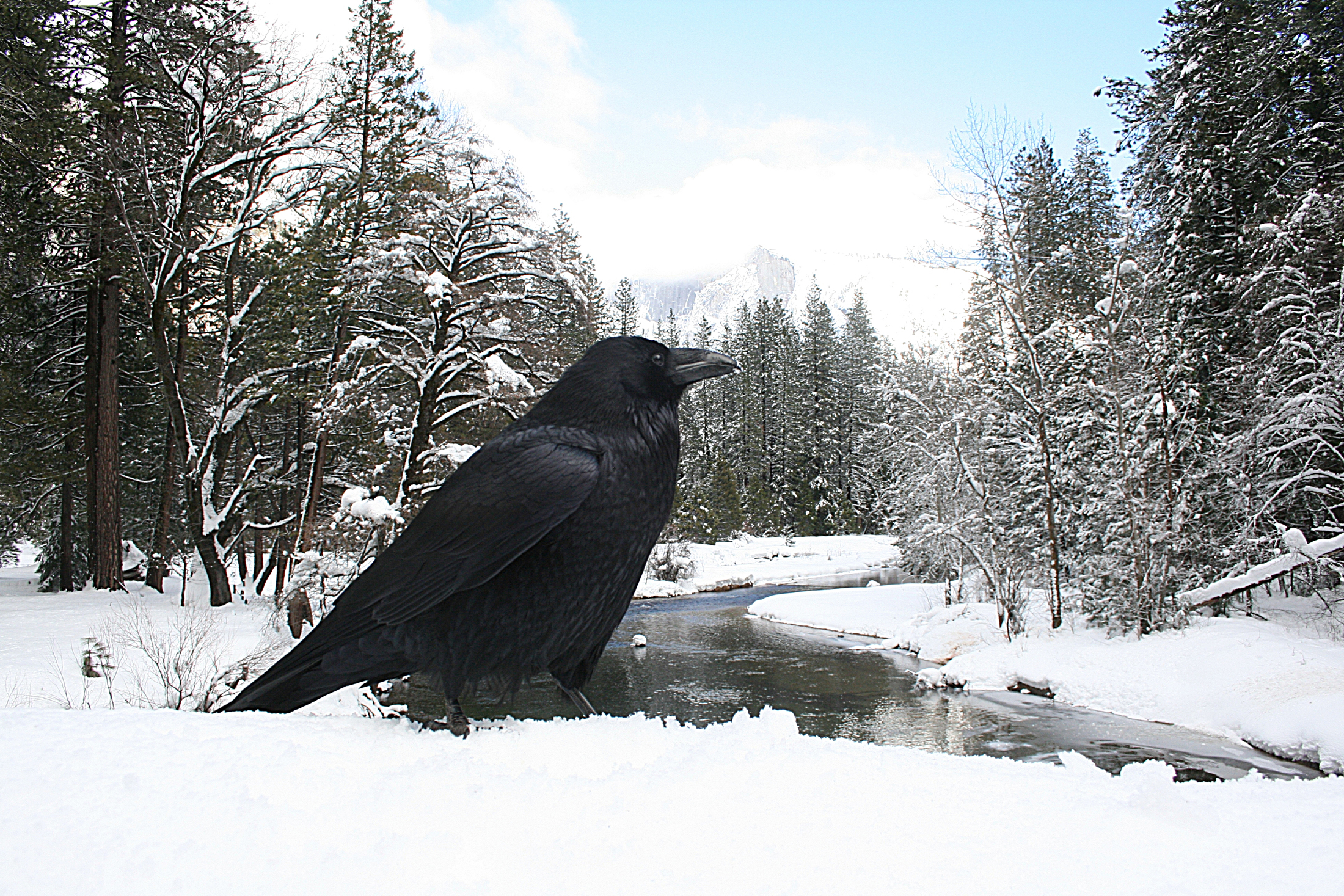 Half Dome and Common Raven,Corvus corax